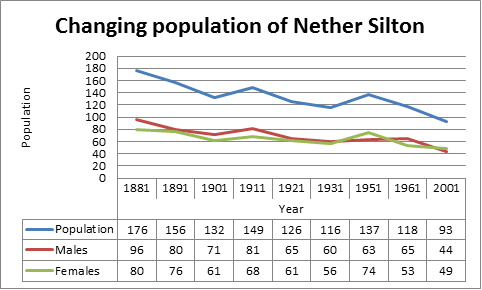 A graph showing the changing total population, male population and female population of Nether Silton from 1881 to 2001.